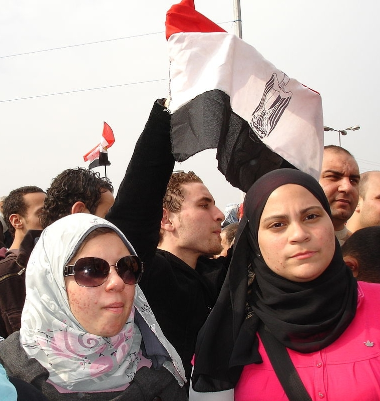 Close-up of two Egyptian girls against Mubarak, cropped from larger photo taken in Cairo on 1 February 2011